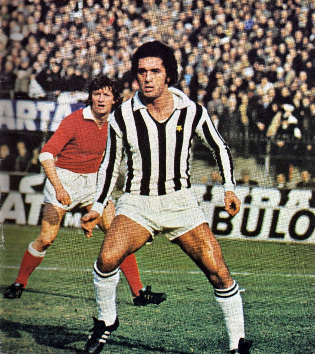 A moment of Juventus — Varese (3:0) at Stadio Comunale in Turin, 16 February 1975, 18th matchday of 1974-75 Serie A championship. Juventus defender Claudio Gentile is on the front; at his shoulders there's Varese striker Giannantonio Sperotto.